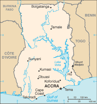 Map of Ghana showing major cities and waterways